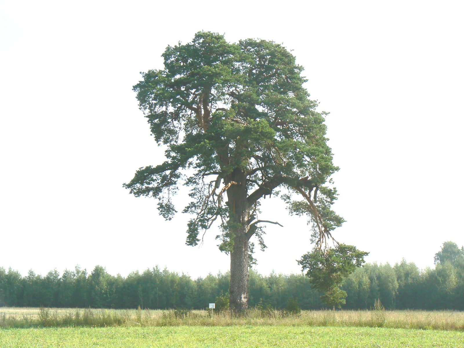 Kuldijüri pine in Estonia